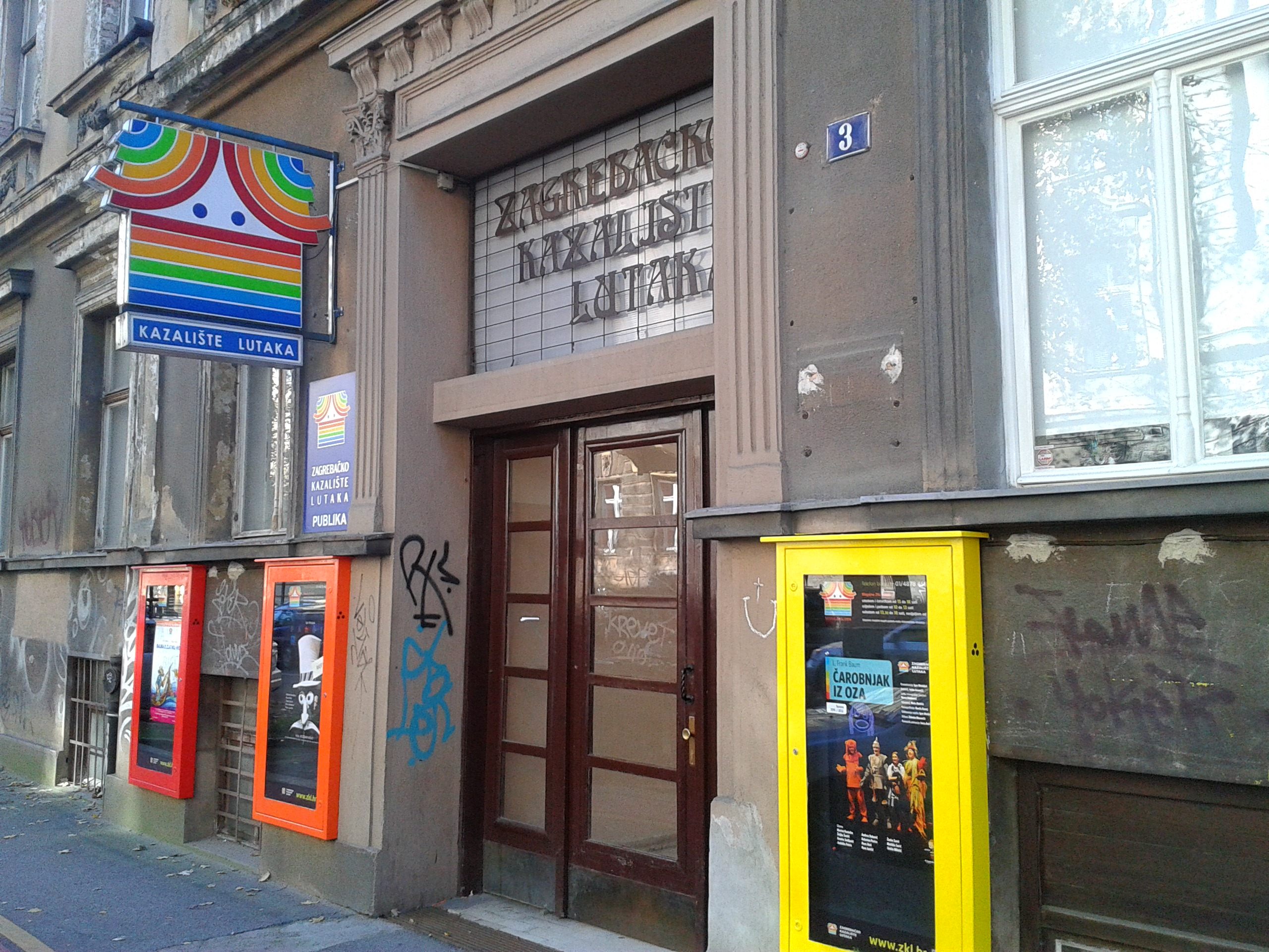 The northern entrance to the Zagreb Puppet Theatre.